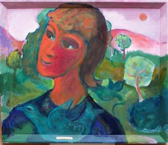 Gawan, Oil Painting, 63×53 cm, 1981 (WV-Nr. 6483)